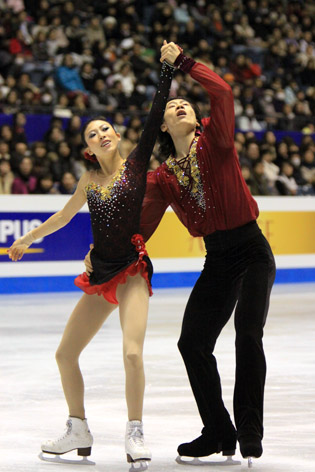 Pang Qing and Tong Jian at the 2009-2010 Grand Prix of Figure Skating Final.